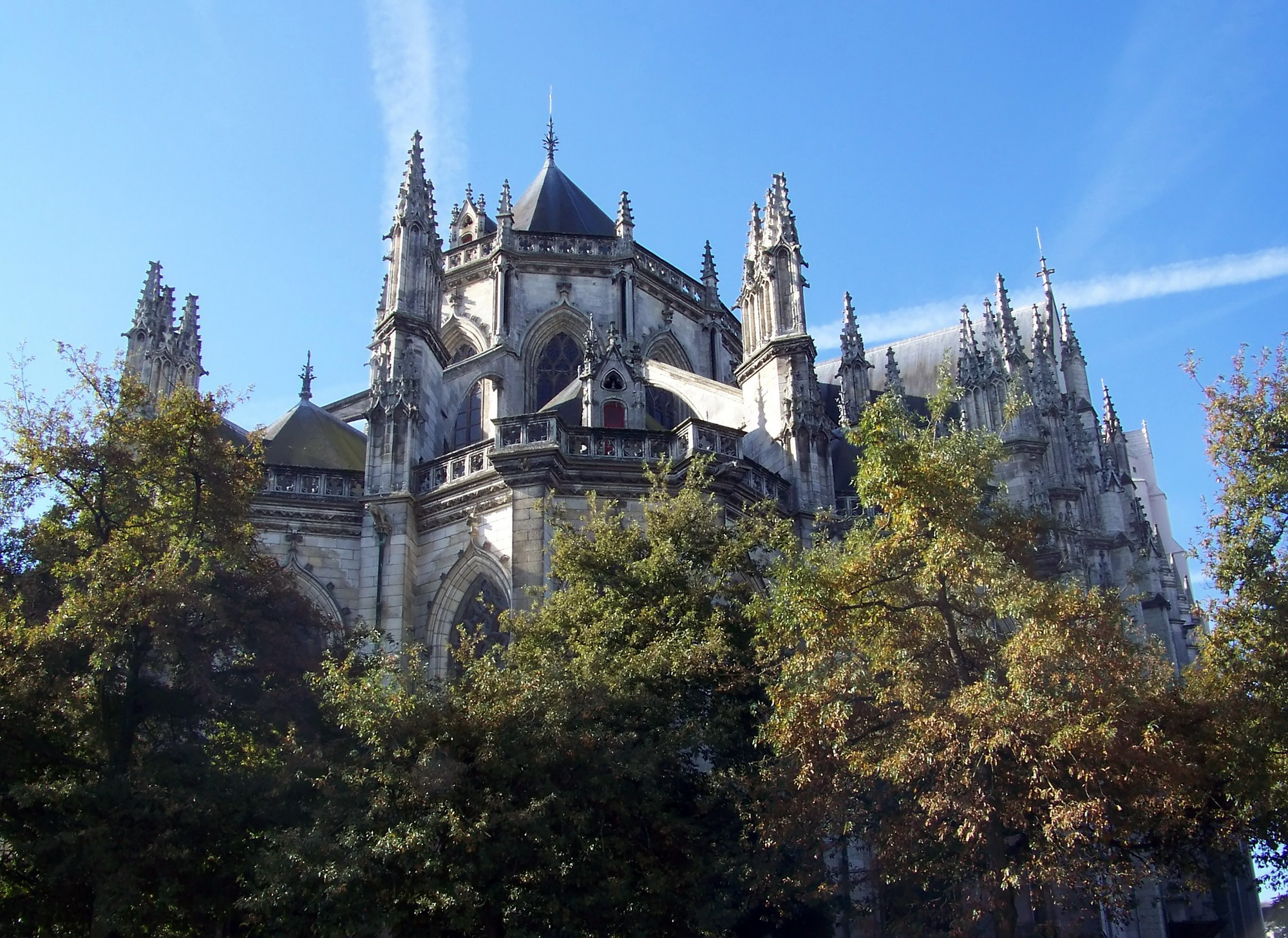 Chevet of the Cathédrale Saint-Pierre et Saint-Paul in Nantes.